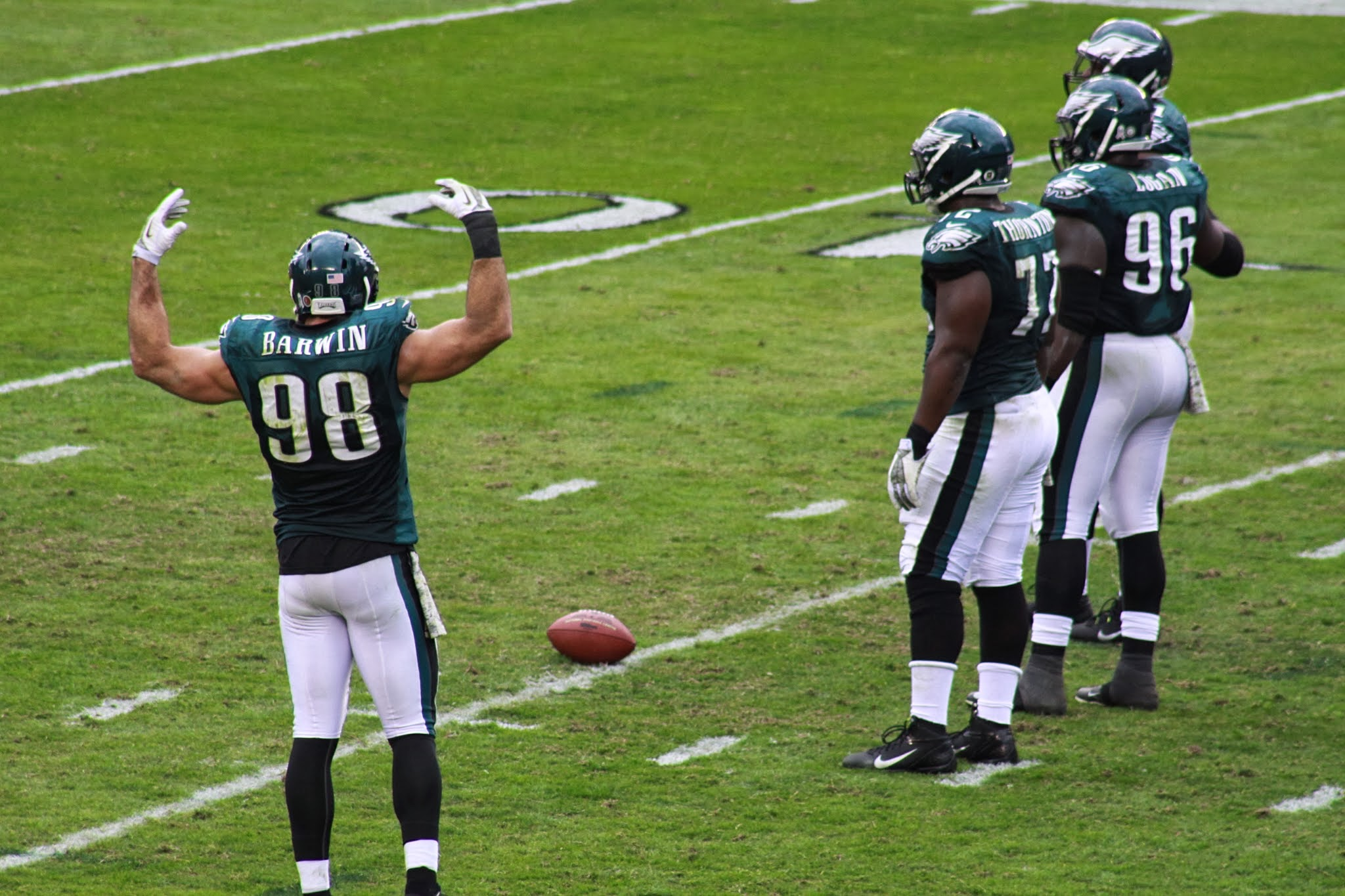 Connor Barwin gesturing to the crowd during a Philadelphia Eagles game.